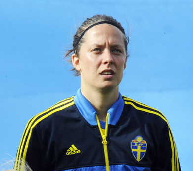 Josefine Öqvist (L) and Lina Nilsson (R) before Sweden's friendly with Brazil in June 2013